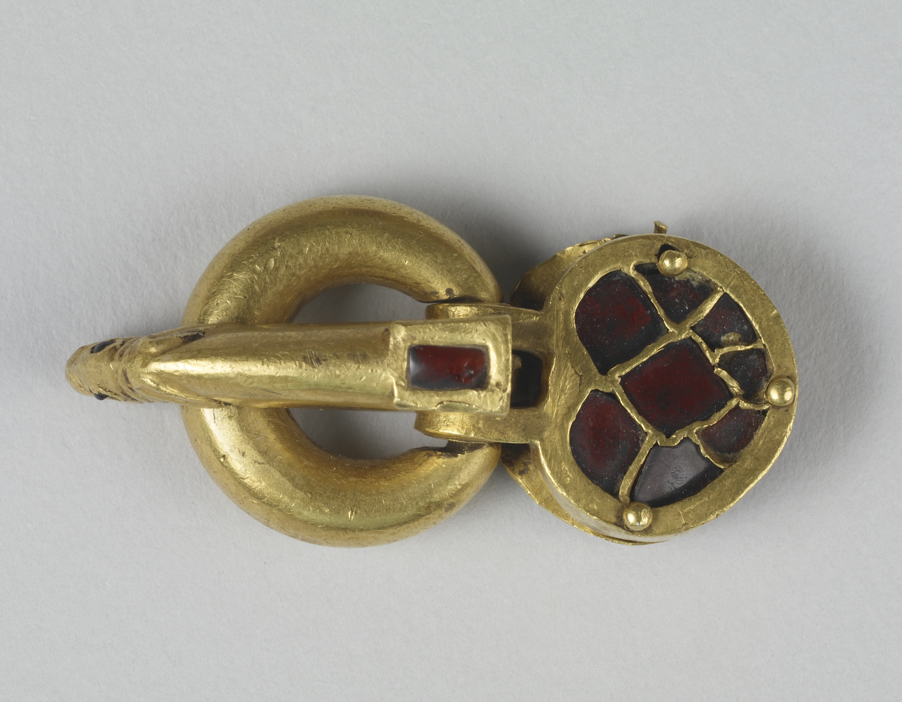 This gold buckle is divided by cloisons (wire strips) into compartments set with garnets. Two rectangular garnets adorn the tongue near its hinge and two small round garnets form the eyes of the horse-head terminal on its tip.